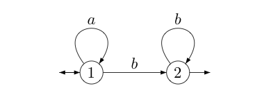 Synchronous automaton recognizing a ∗ b ∗ {\displaystyle a^{*}b^{*